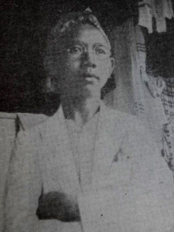 Wahid Hasyim when he was 12 years old